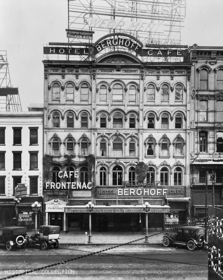 32-42 Monroe Avenue, Detroit